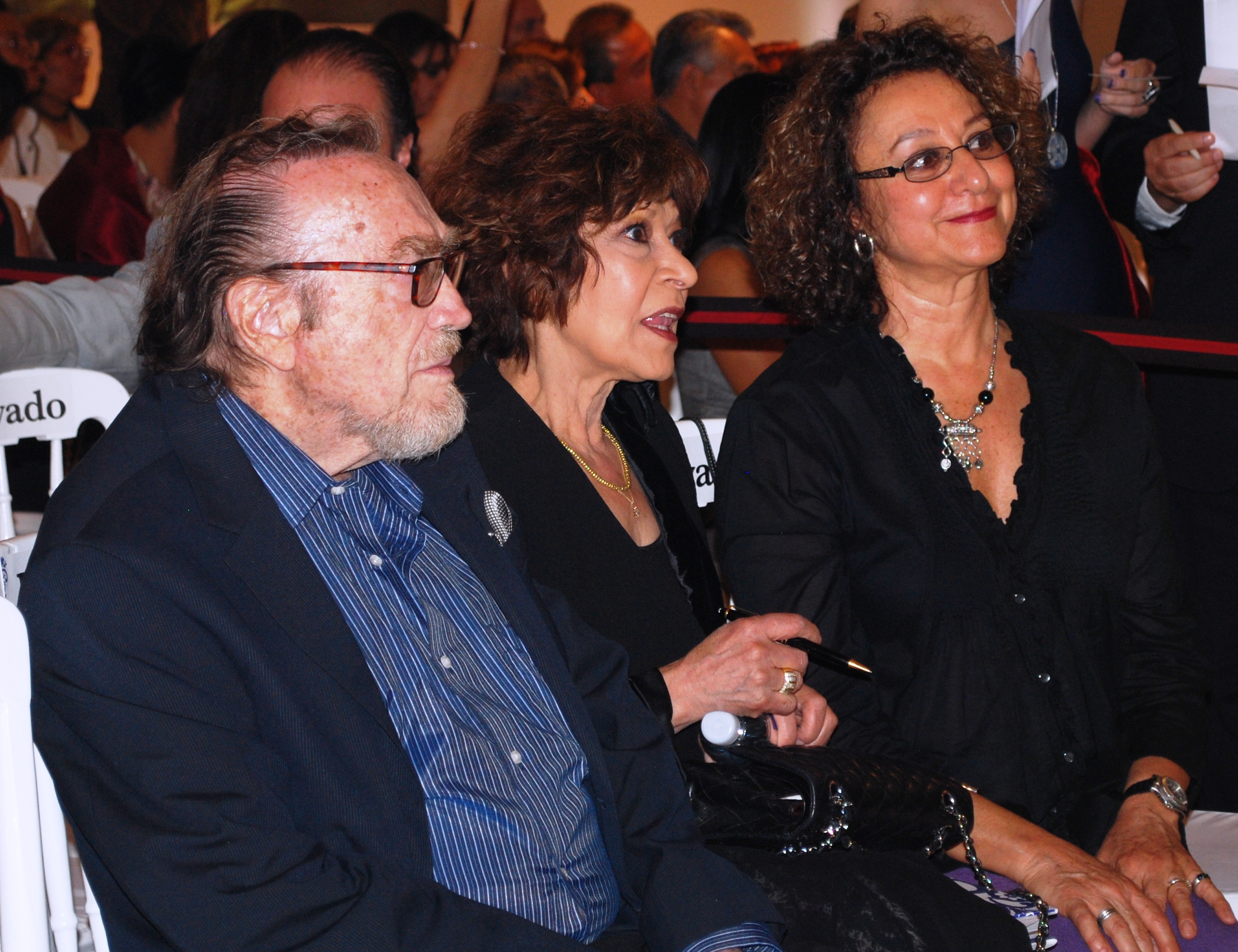 Leonardo Nierman, Cristina Pacheco and Eugenia Marcos at the Por Siempre Mexico event at the Palacio de Hierro in Polanco, Mexico City